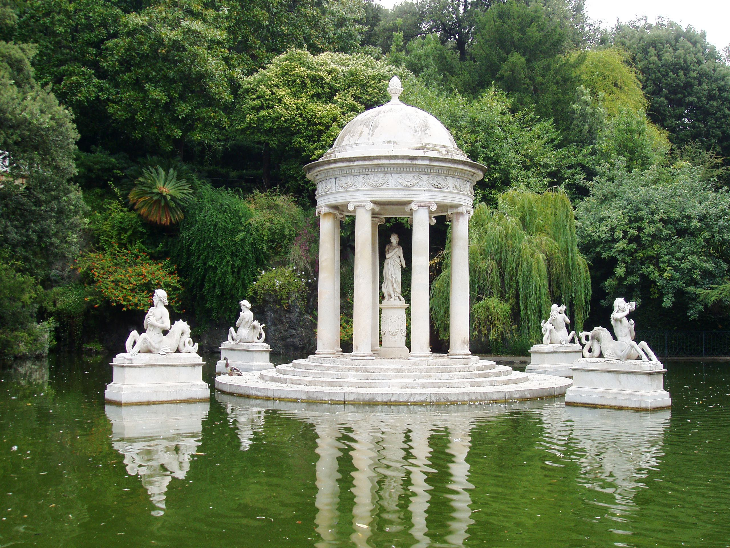 Villa Durazzo Pallavicini - Temple of Diana. Pegli, Italy. Temple of Diana (Pegli) in the 1880s. Temple of Diana (Pegli) in 2006.